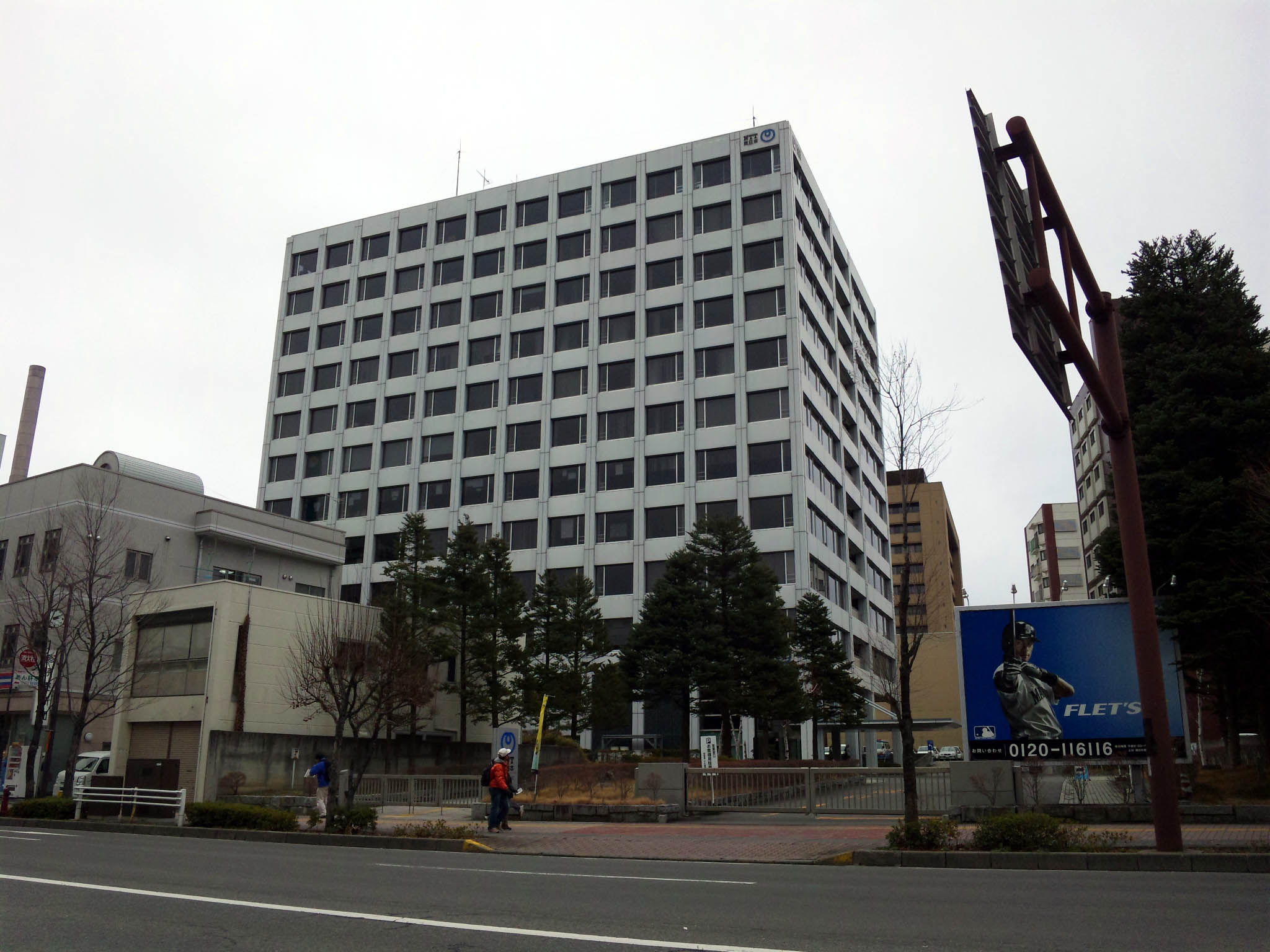 NTT EAST NAGANO